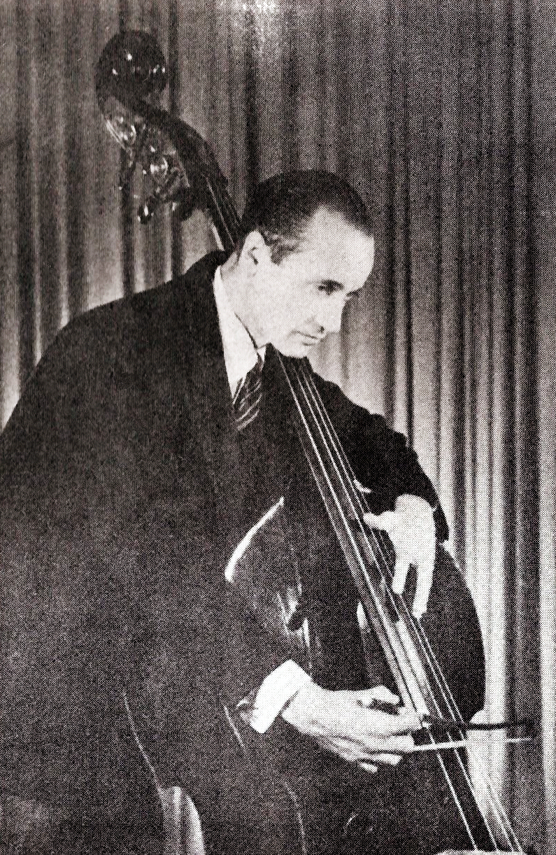 Murray Shapinsky (United States). Principal bass of the Chihuahua Symphony Orchestra in 1963